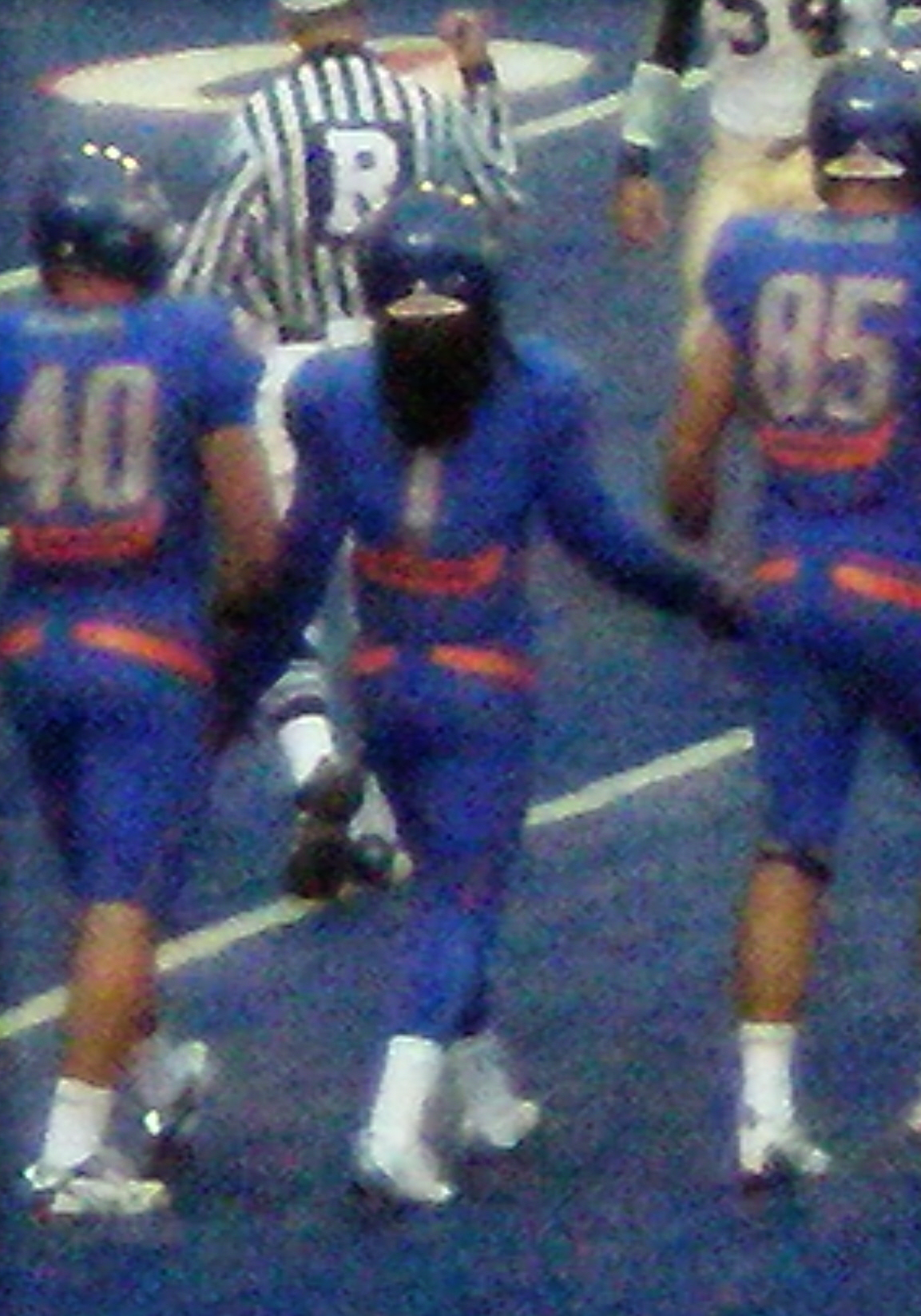 Kyle Wilson going to the coin toss before the Boise State vs UC Davis game at Bronco Stadium in Boise, ID